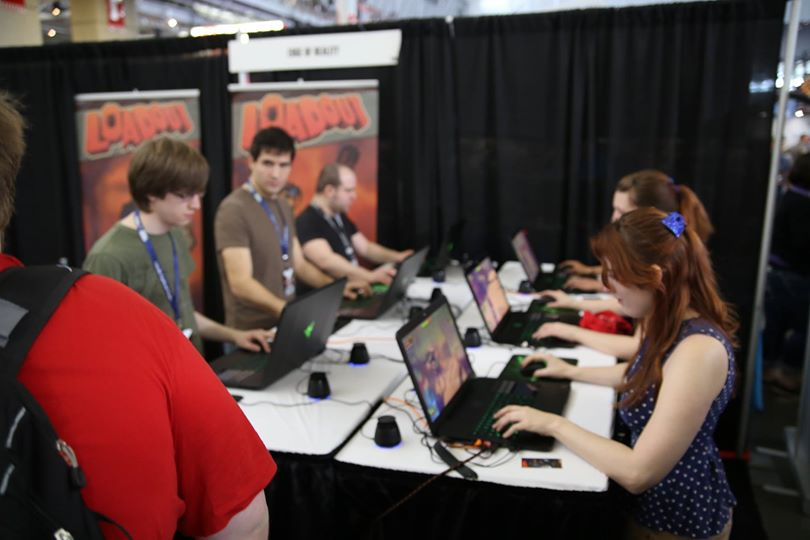 Gamers testing the game and competing between them at the AMD Fan Day Event.